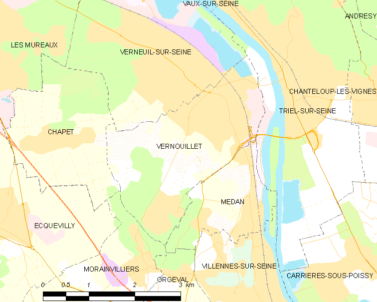 Map of French municipality Vernouillet